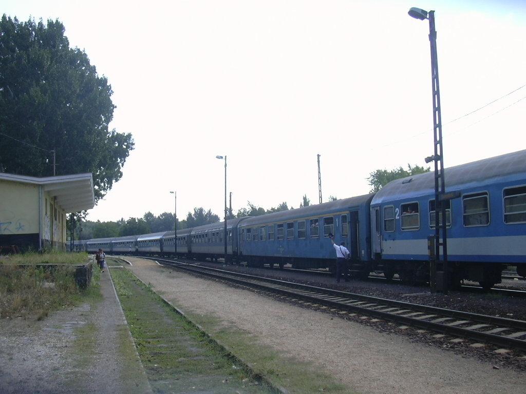 Interregional train of the MÁV in Balatonfűzfő